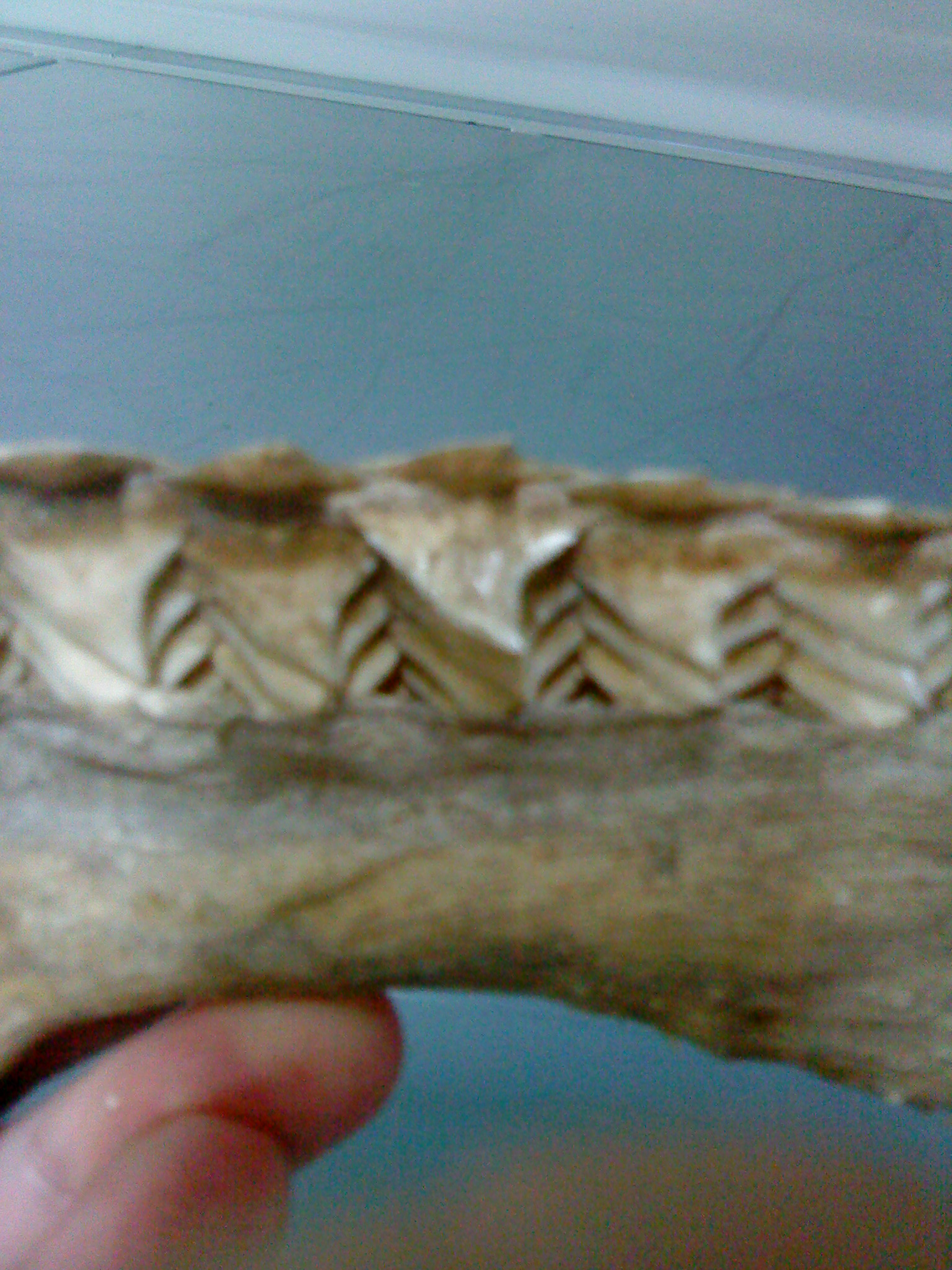 The internal side of a shark sp. mandible, showing sequential growth arrangement of teeth.